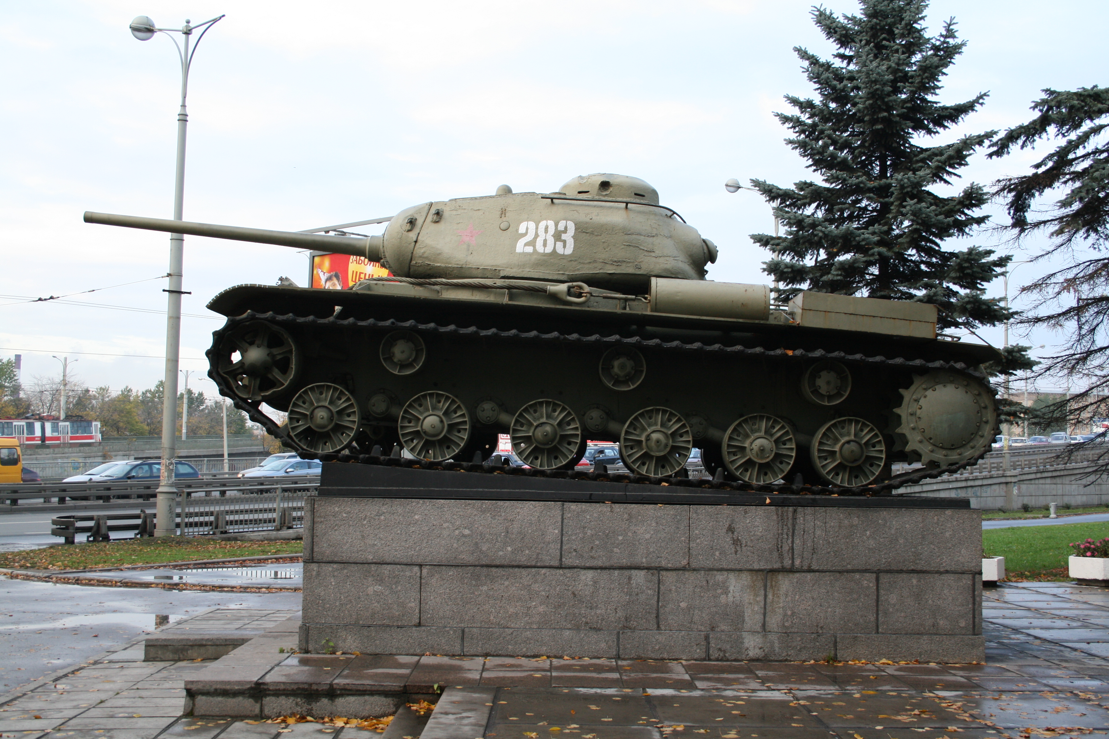 KV-85, left side view